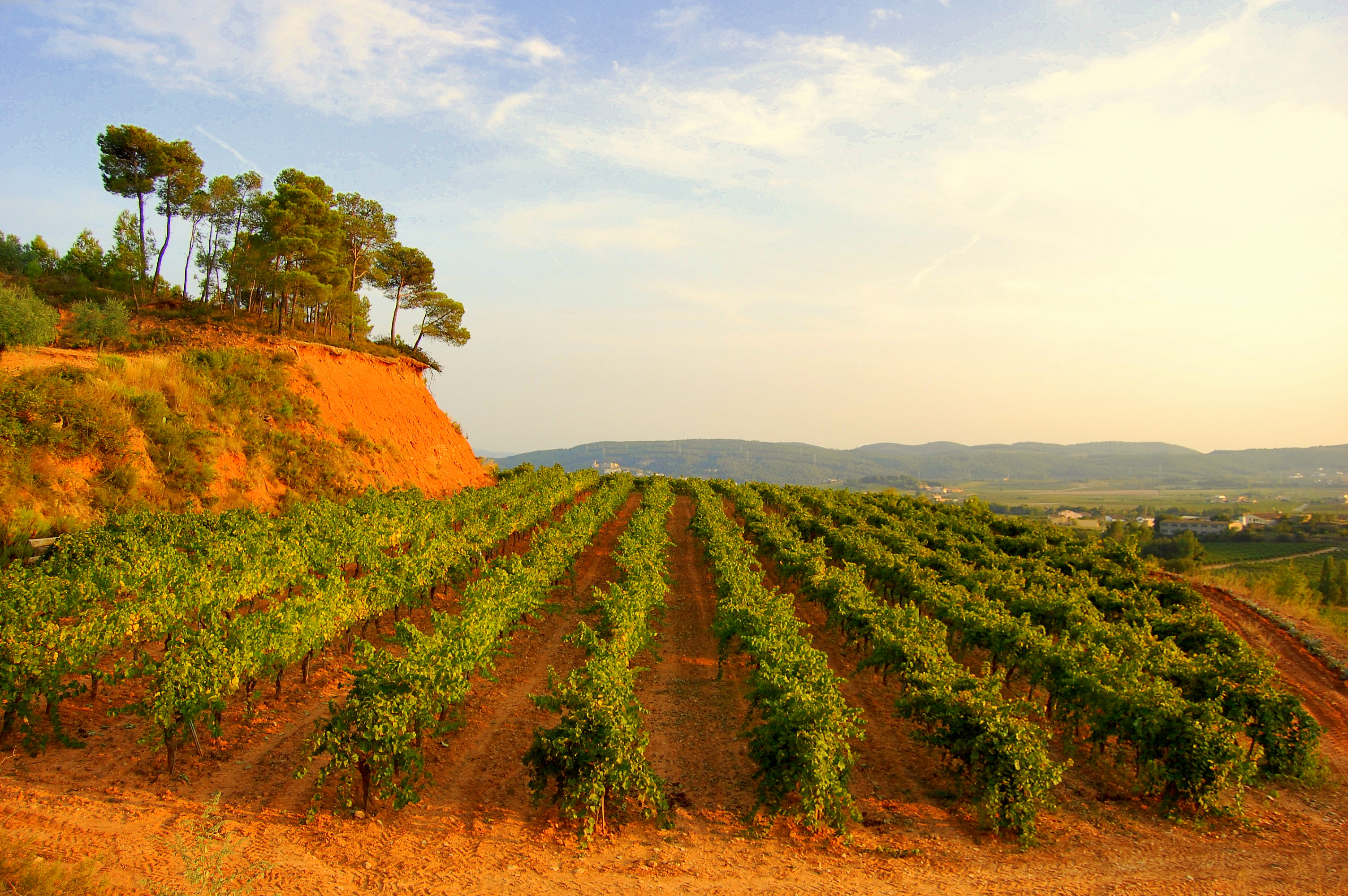 Vineyards in the Spanish wine region of Penedes, Catalonia.